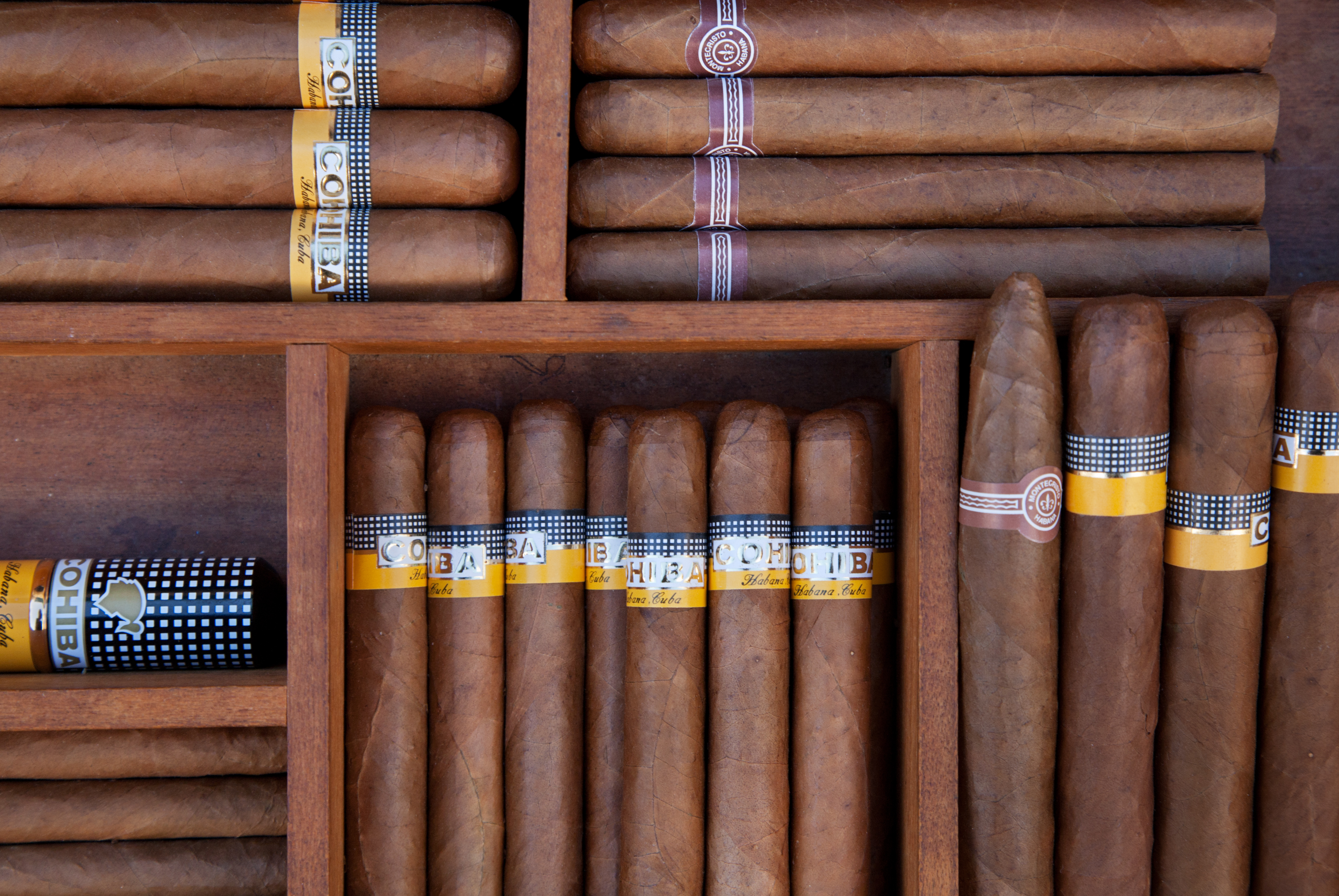 Cohiba cigars in disaplay. Havana (La Habana), Cuba